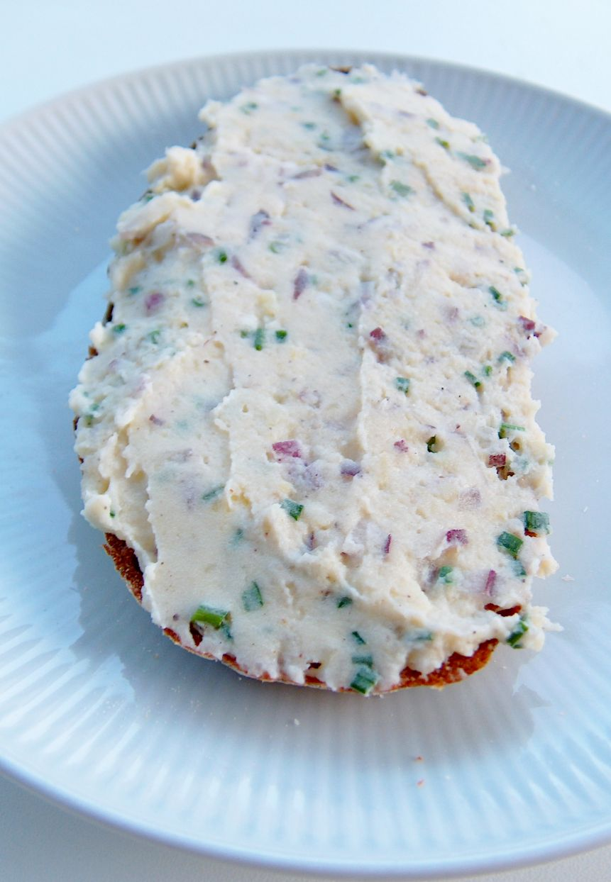 "Potato cheese" with red onions and chives on bread. (Potato cheese is a Lower Bavarian/Austrian peasant food, made of mashed potatoes, softened onions and sour cream, the mixture is worked until it is spreadable and can be found served flavoured with cumin, onions, chives, parsley etc.)